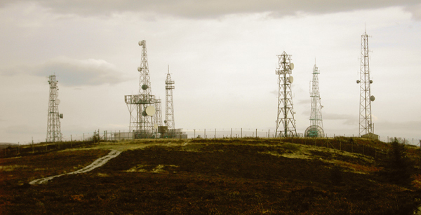 Mormond Hill, Please note, the Meta data date is incorrect.